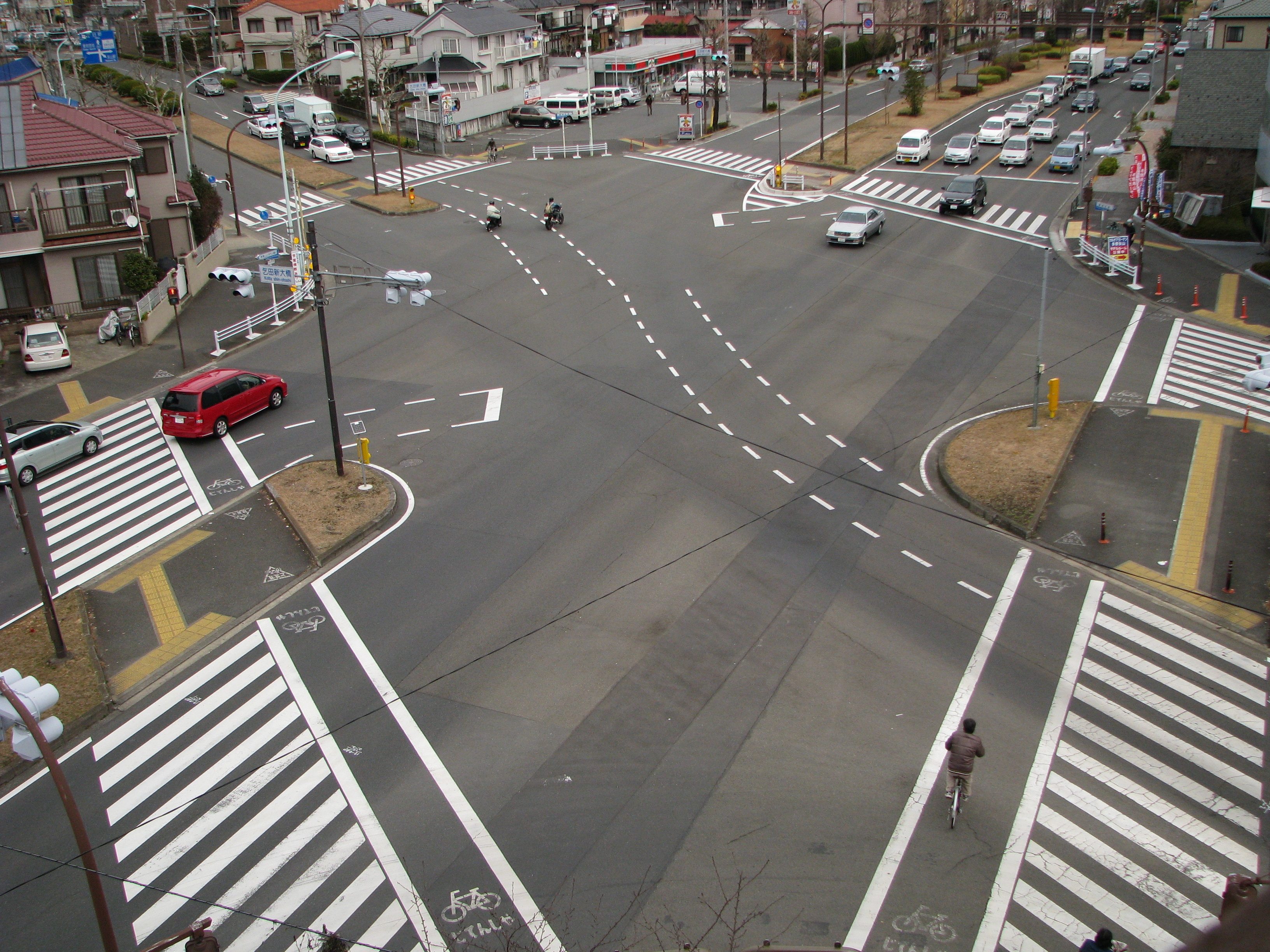 Kotta shin-ohashi, Tama C, Tokyo M.